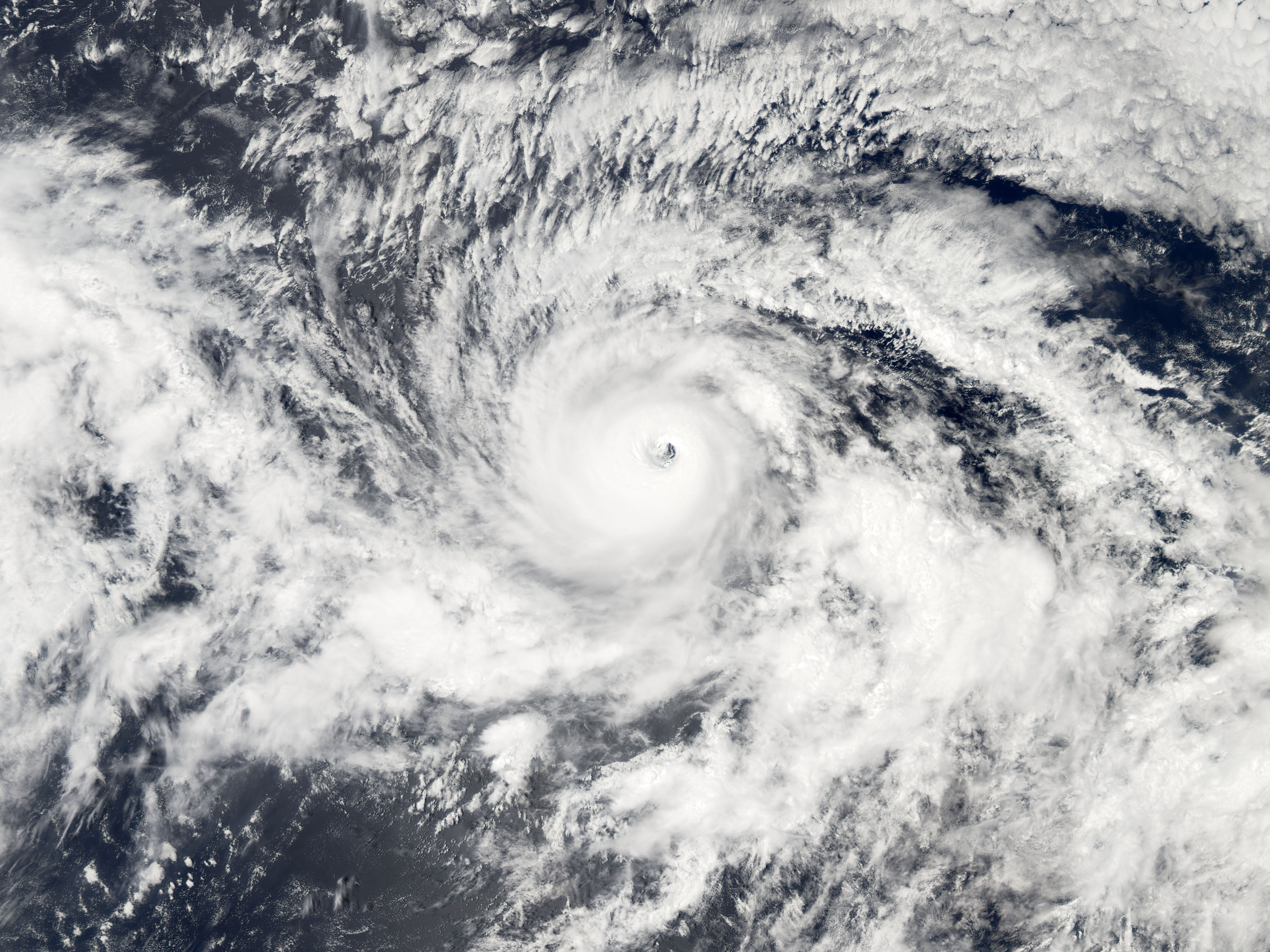 Hurricane Kenneth is just one of a series of tropical storms which have formed in the middle of September 2005 off the coast of Baja California. At the time of this image, it was bracketed by Hurricane Jova to the west and Tropical Storm Max to the east. The Moderate Resolution Imaging Spectroradiometer (MODIS) on NASA’s Aqua satellite captured this image of Kenneth at 3:25 p.m. local time. Kenneth had sustained wind speeds of 210 kilometers per hour (130 miles per hour) and a well-organized spiral structure that is quite apparent in this satellite image.